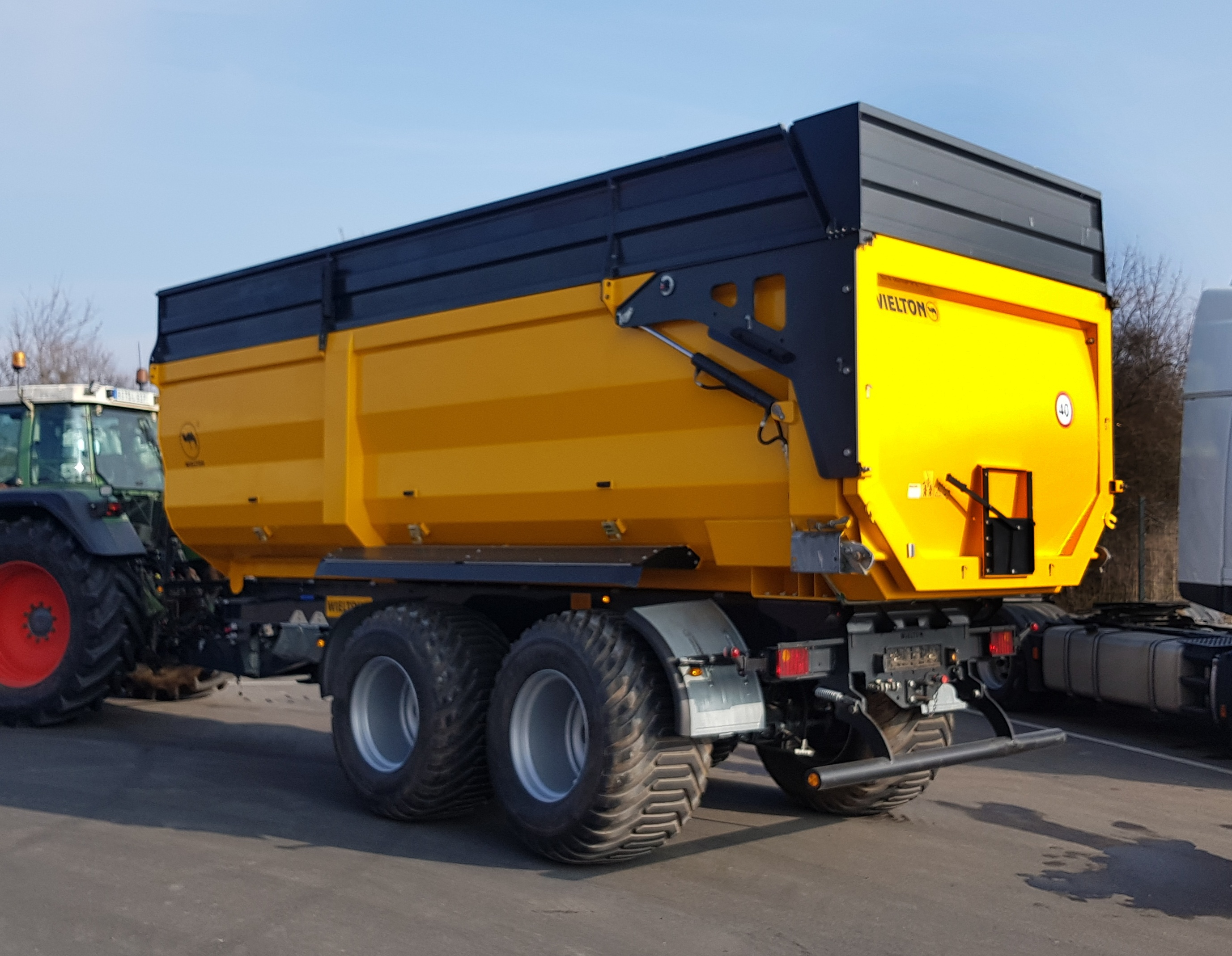 Agro trailer by Polish manufacturer Wielton.